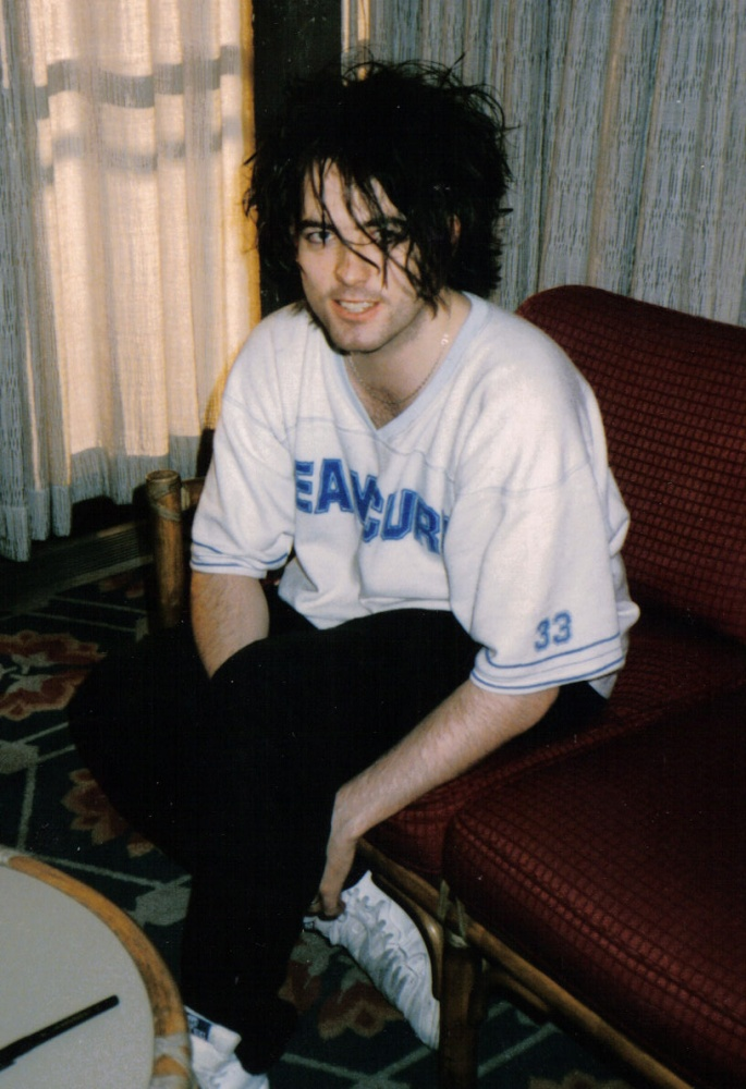 Subject: Robert Smith of The Cure Date: October, 1985 Place: Miyako Hotel - San Francisco, California, USA Photographer: Andwhatsnext Original 35mm photograph scanned Credit: Copyright (c) 1985 by Nancy J Price